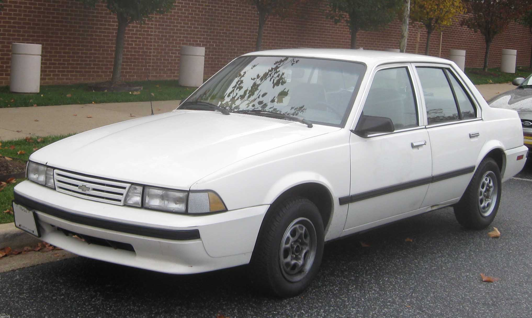 1988-1990 Chevrolet Cavalier photographed in College Park, Maryland, USA.